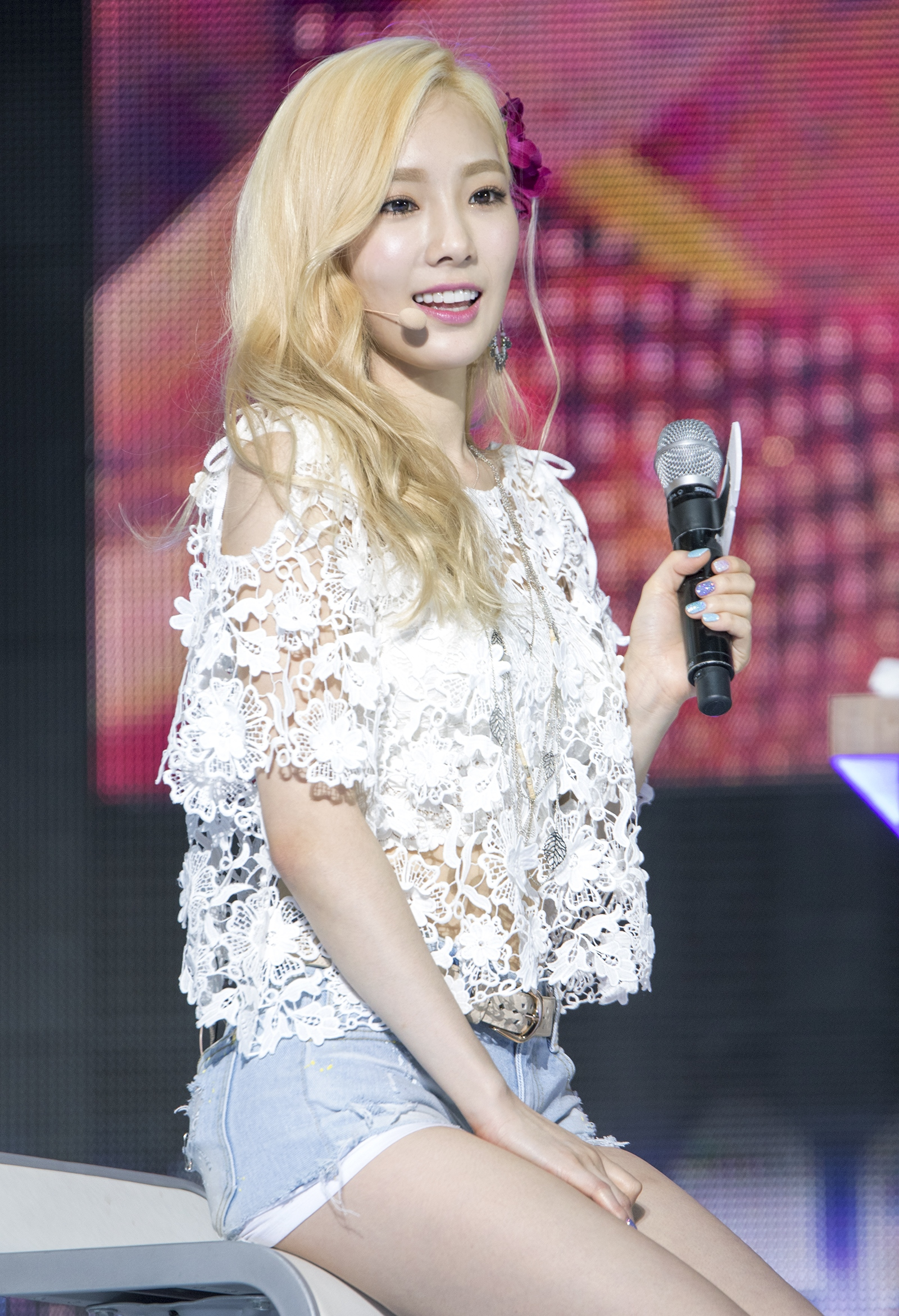 Taeyeon at Party Showcase on July 7, 2015.